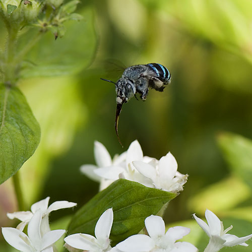 This long-tongued Amegilla cingulata bee makes a buzzing noise as it flies. In our garden in Bangalore, India.